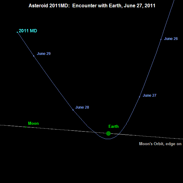 Trajectory of near-Earth asteroid 2011 MD passing Earth about 9.30 EDT on June 27, 2011.